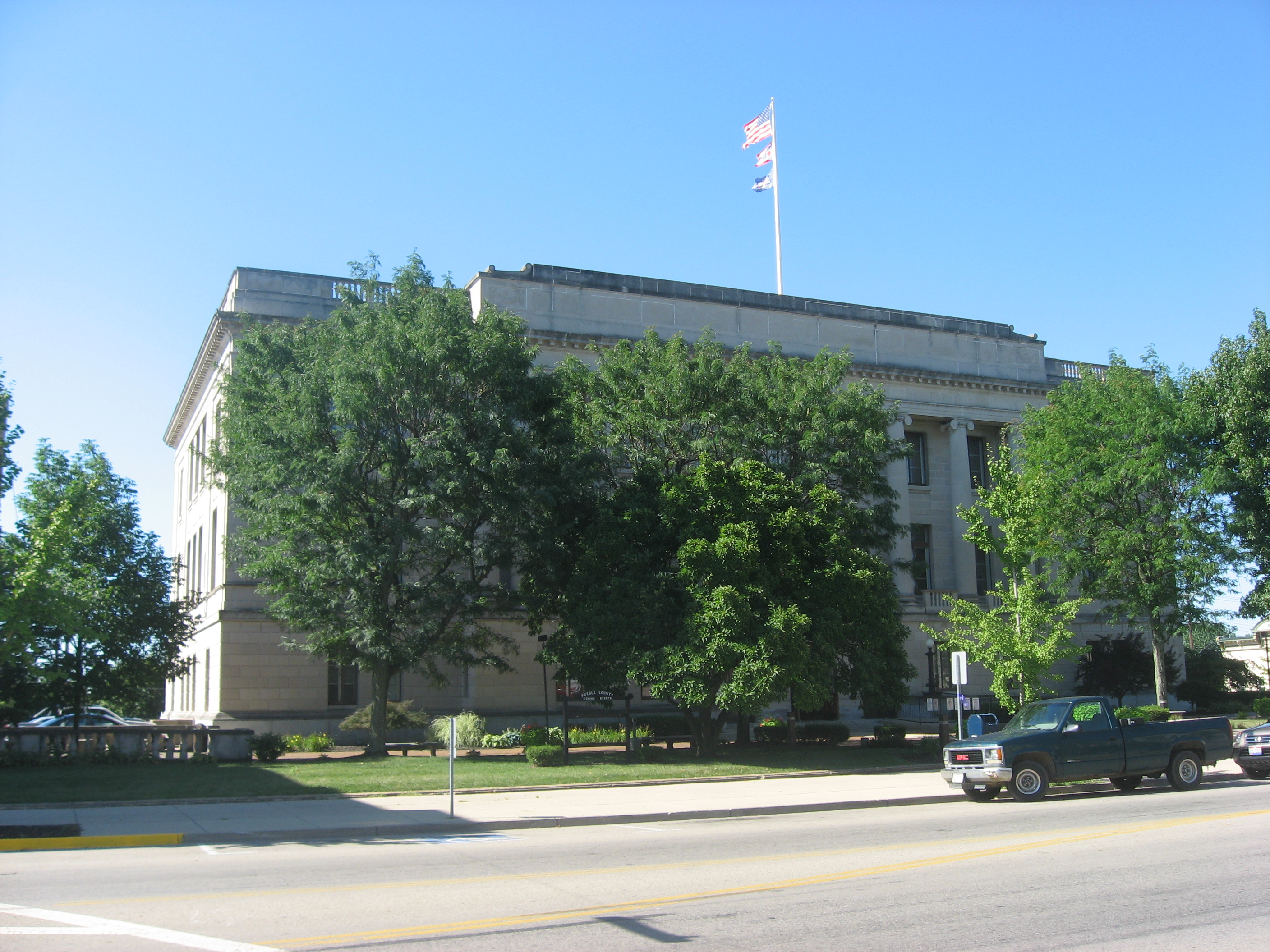 Front of the Preble County Courthouse, located on the southeastern corner of the intersection of Main and Barron Streets (U.S. Routes 35 and 127 respectively) in downtown Eaton, Ohio, United States.